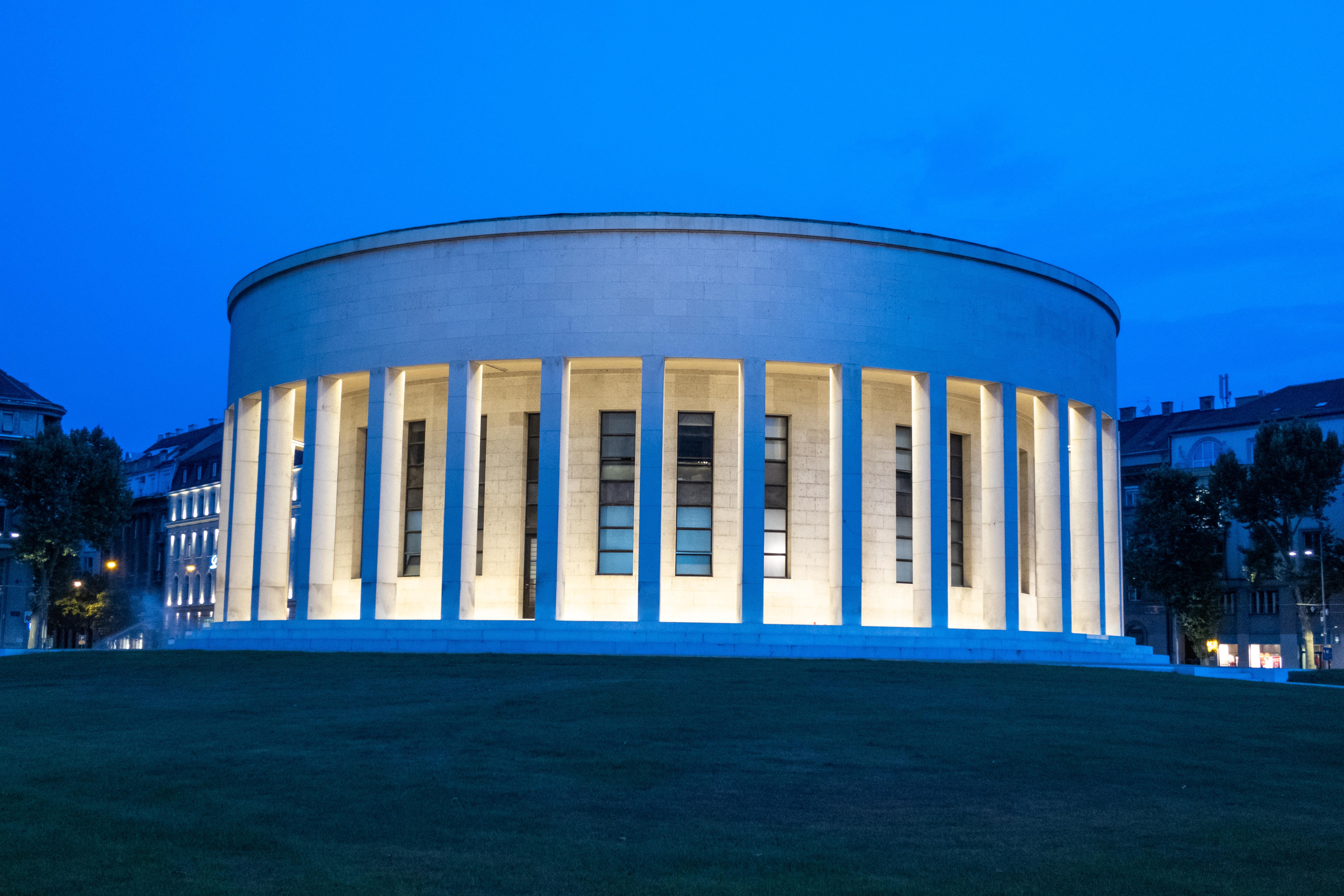 Zagreb